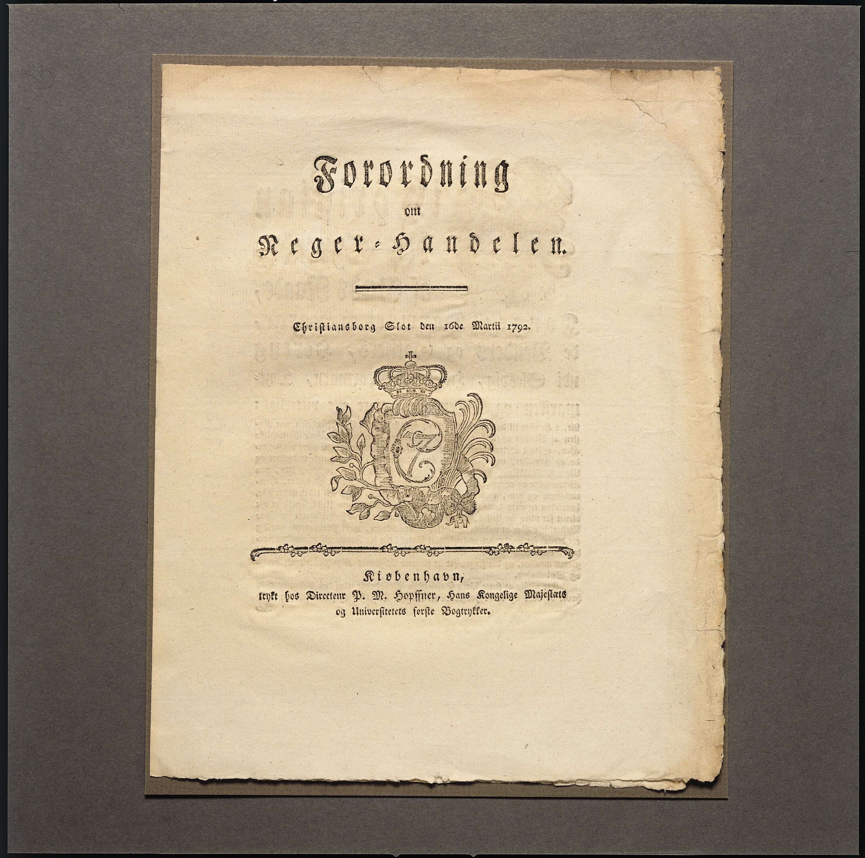 Royal Decree by King Christian VII "Decree on Negro Trade" prohibiting transport of slaves from West Africa to Danish West Indies Islands with effect from 1803